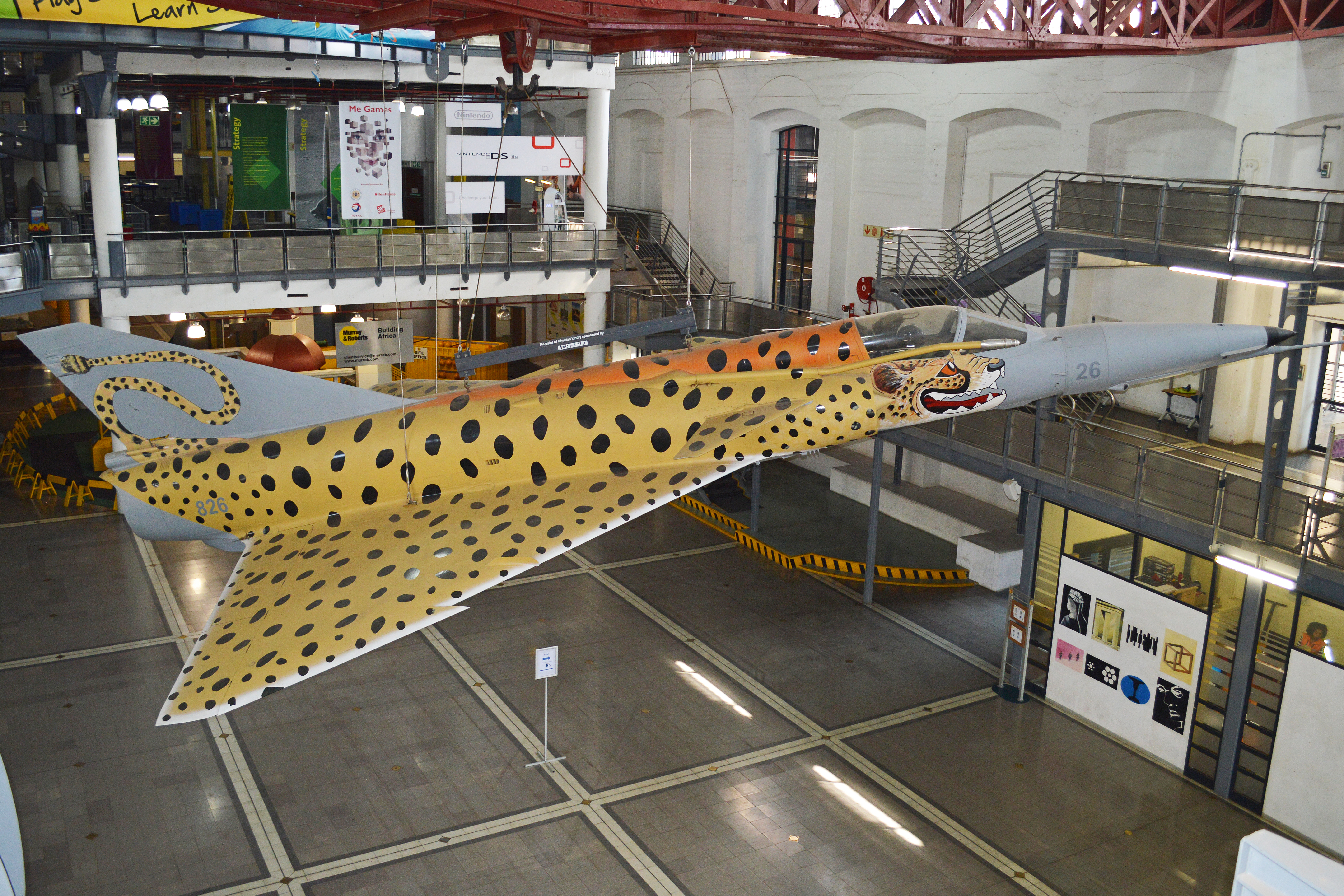 c/n 450. The Cheetah E was a local conversion of the Mirage IIIEZ. This colourful example is on display in the Sci-Bono Discovery Centre, Johannesburg, South Africa. 16-9-2014